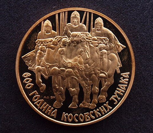 Battle of Kosovo 1989 commemorationn coin kosovo heros